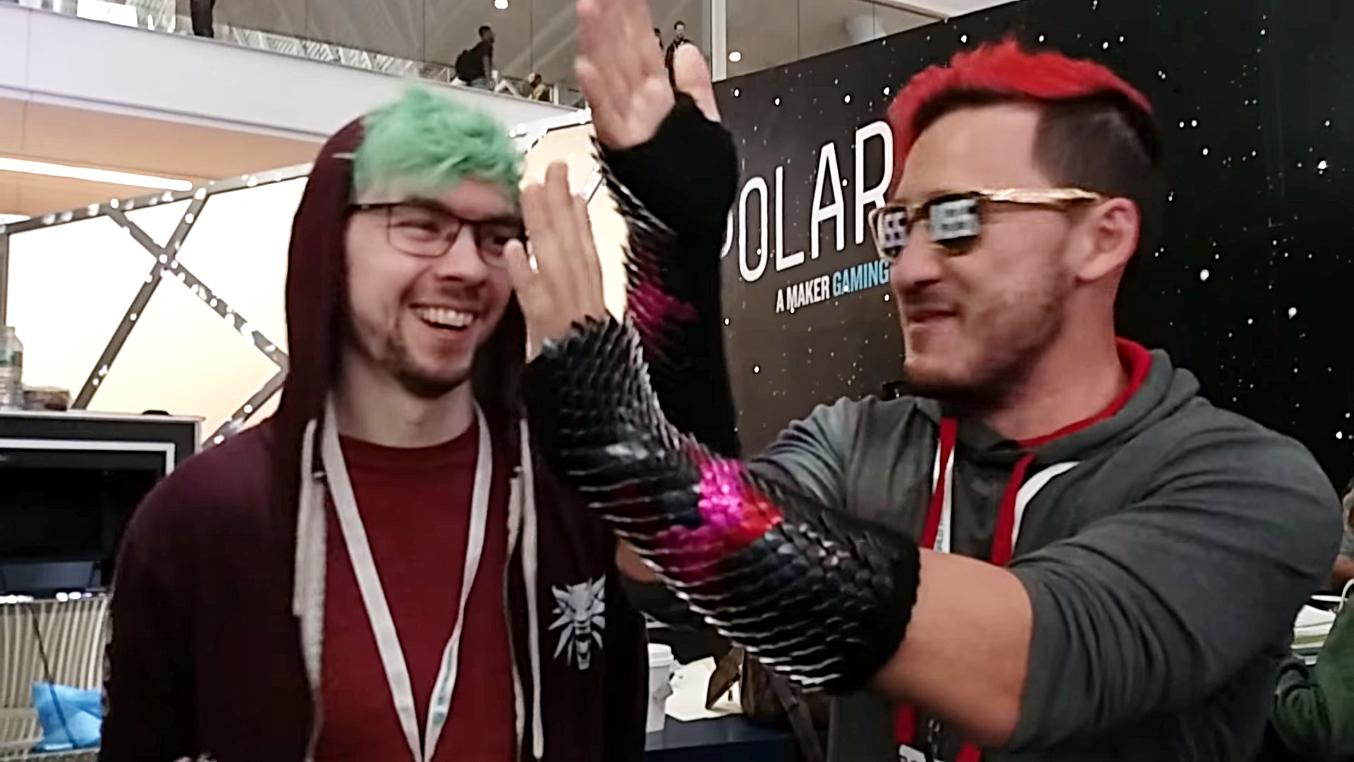 Popular Youtubers Jacksepticeye and Markiplier at PAX 2016.